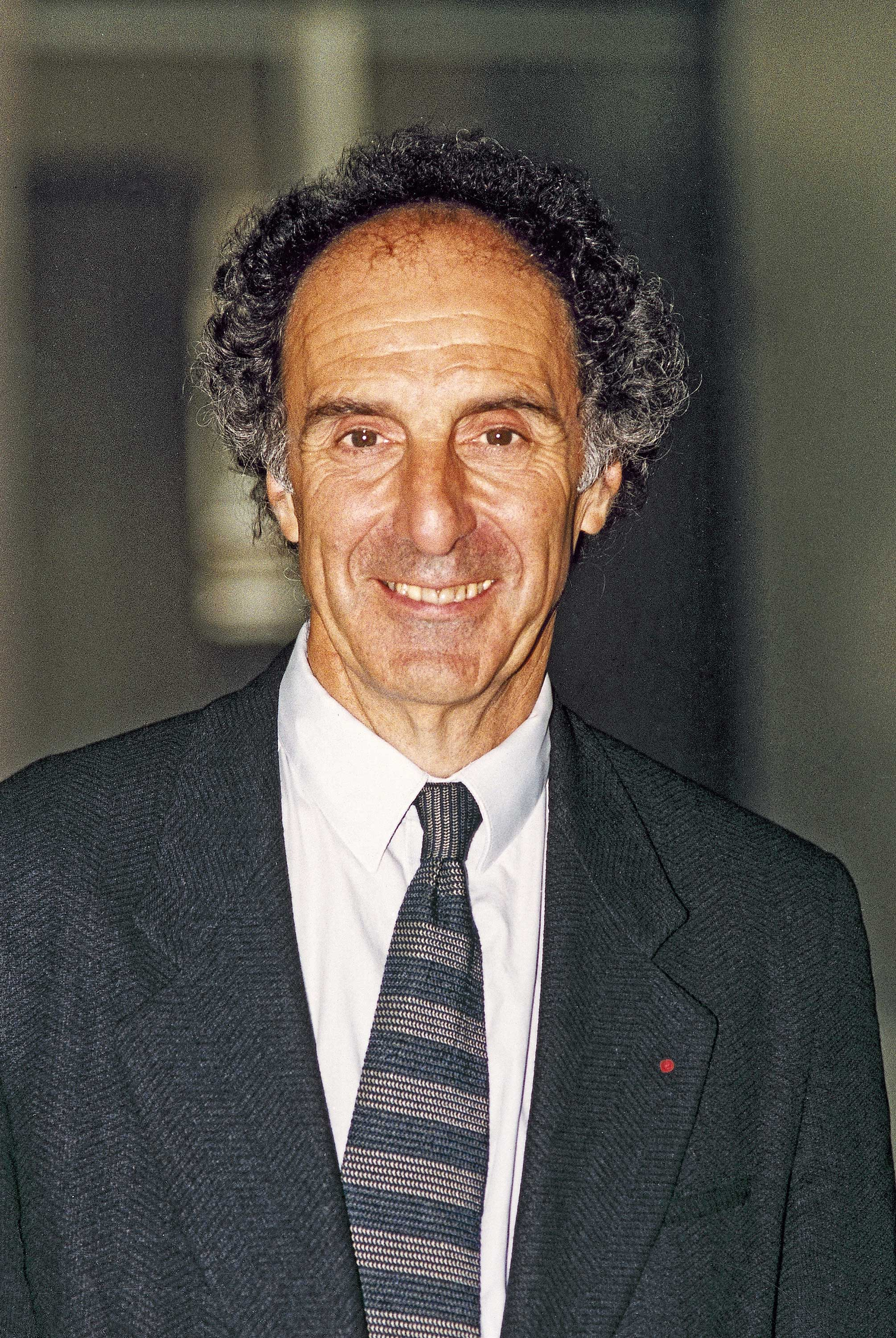 Paul Andreu in 1996